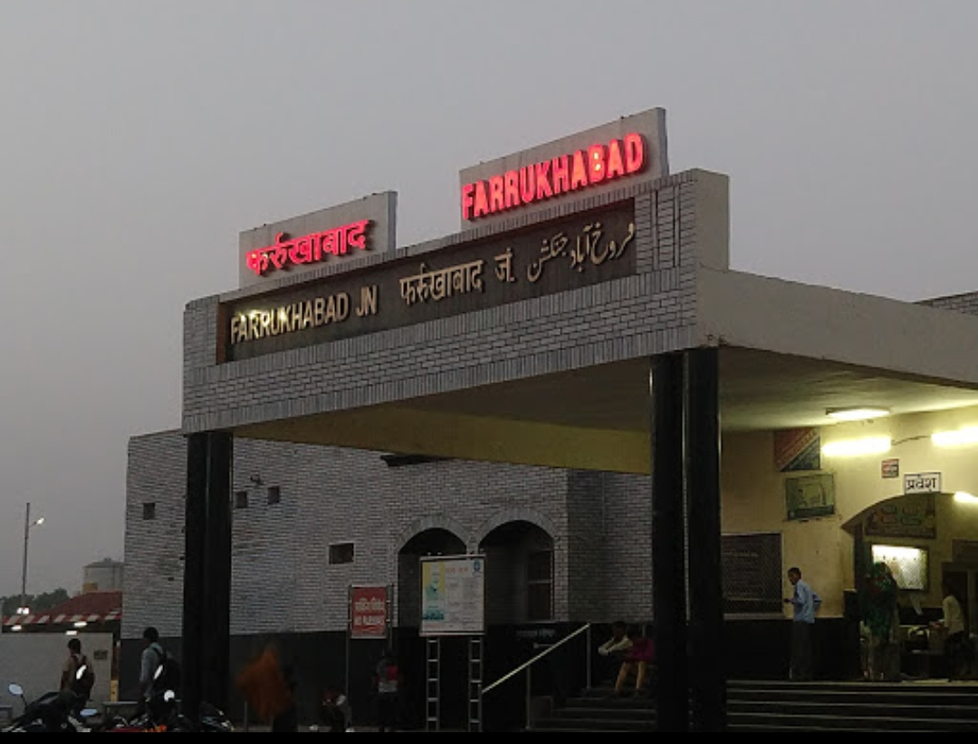 Farrukhabad